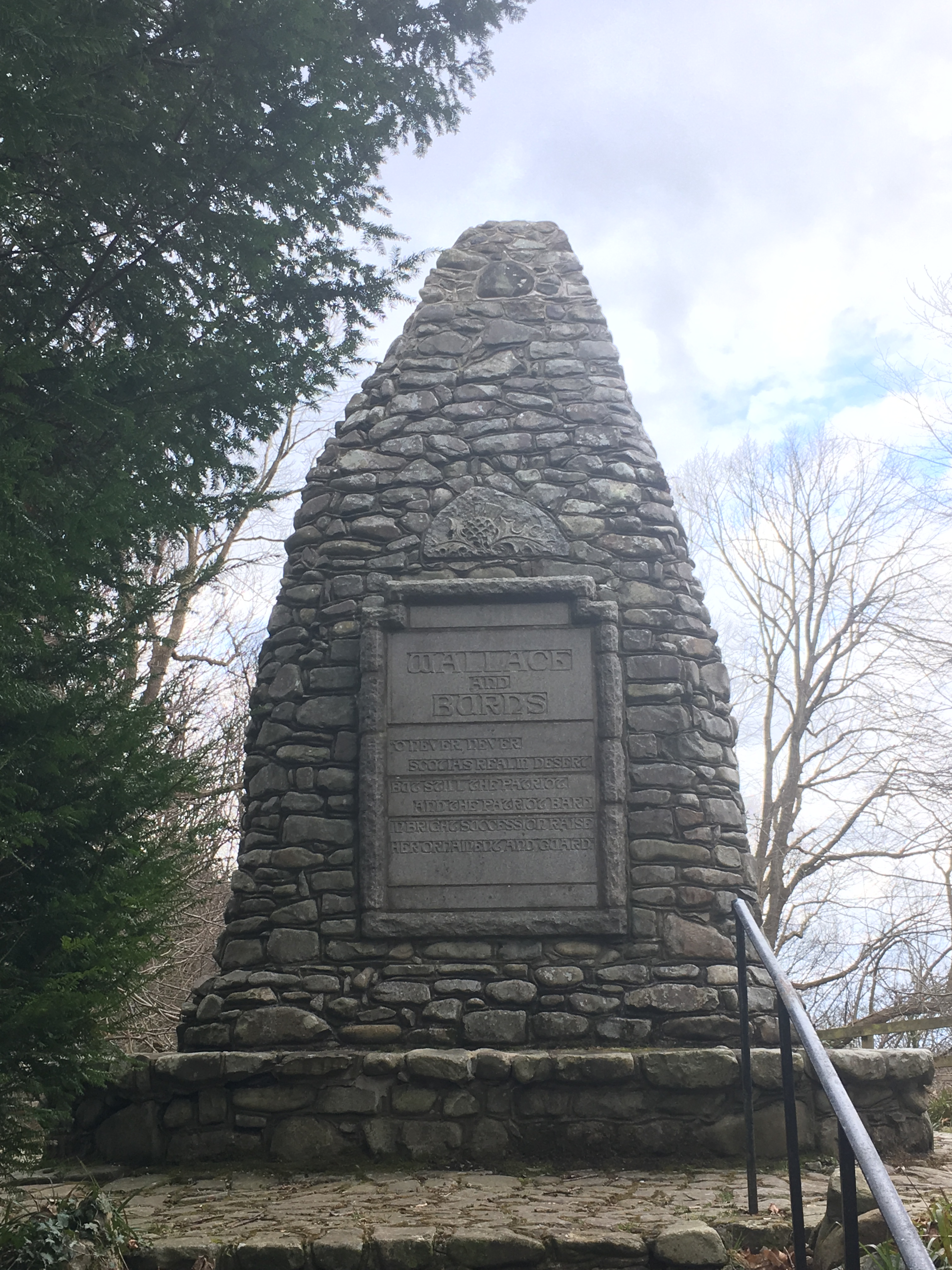 The Wallace Burns Cairn at Auchincruve